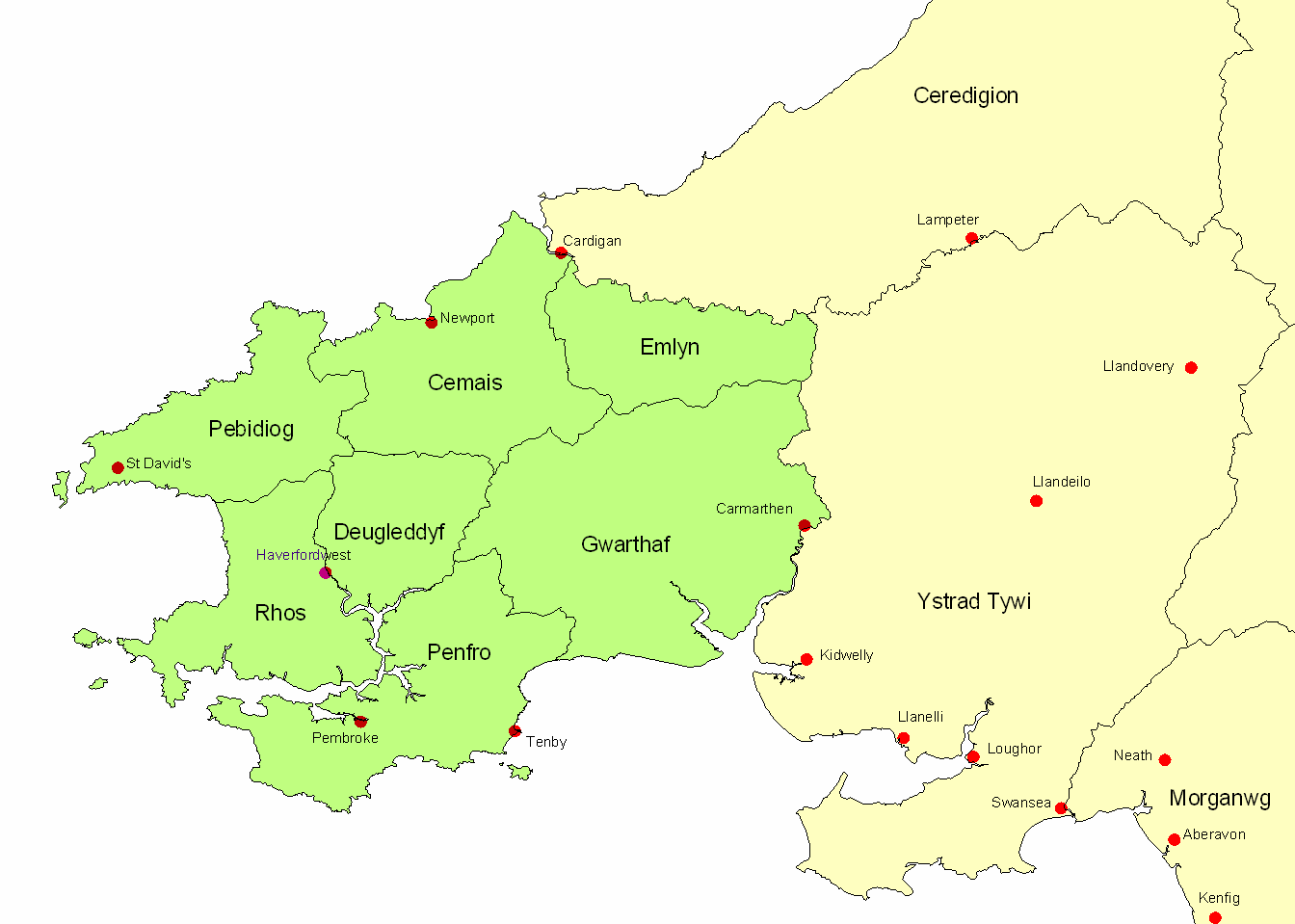 Map of ancient Dyfed, showing its position in southwest Wales, various important medieval towns, and its 7 cantrefs.